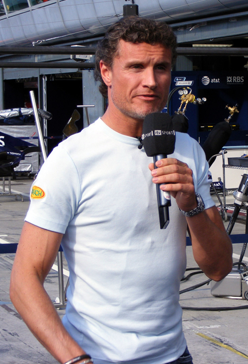 David Coulthard in the pits at the 2007 Italian GP